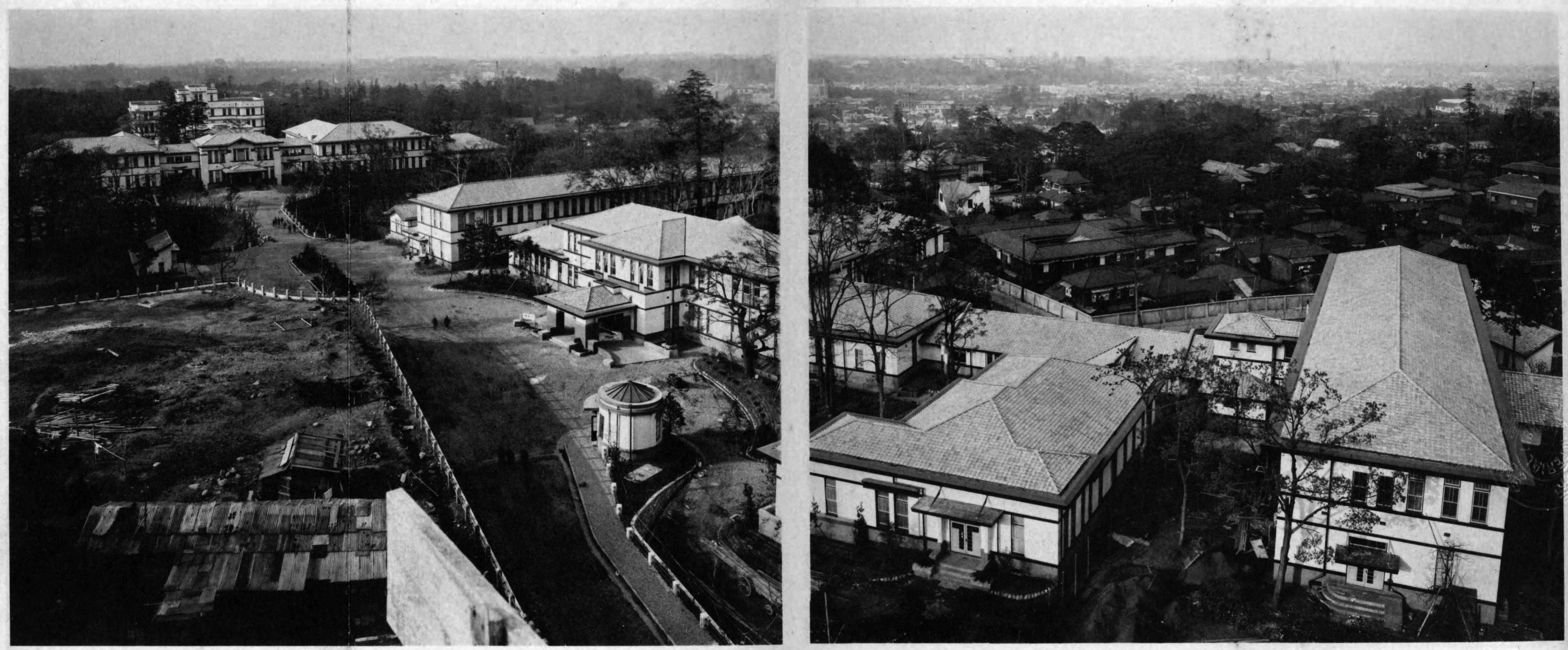 A panorama of Imperial Japanese Army Medical School